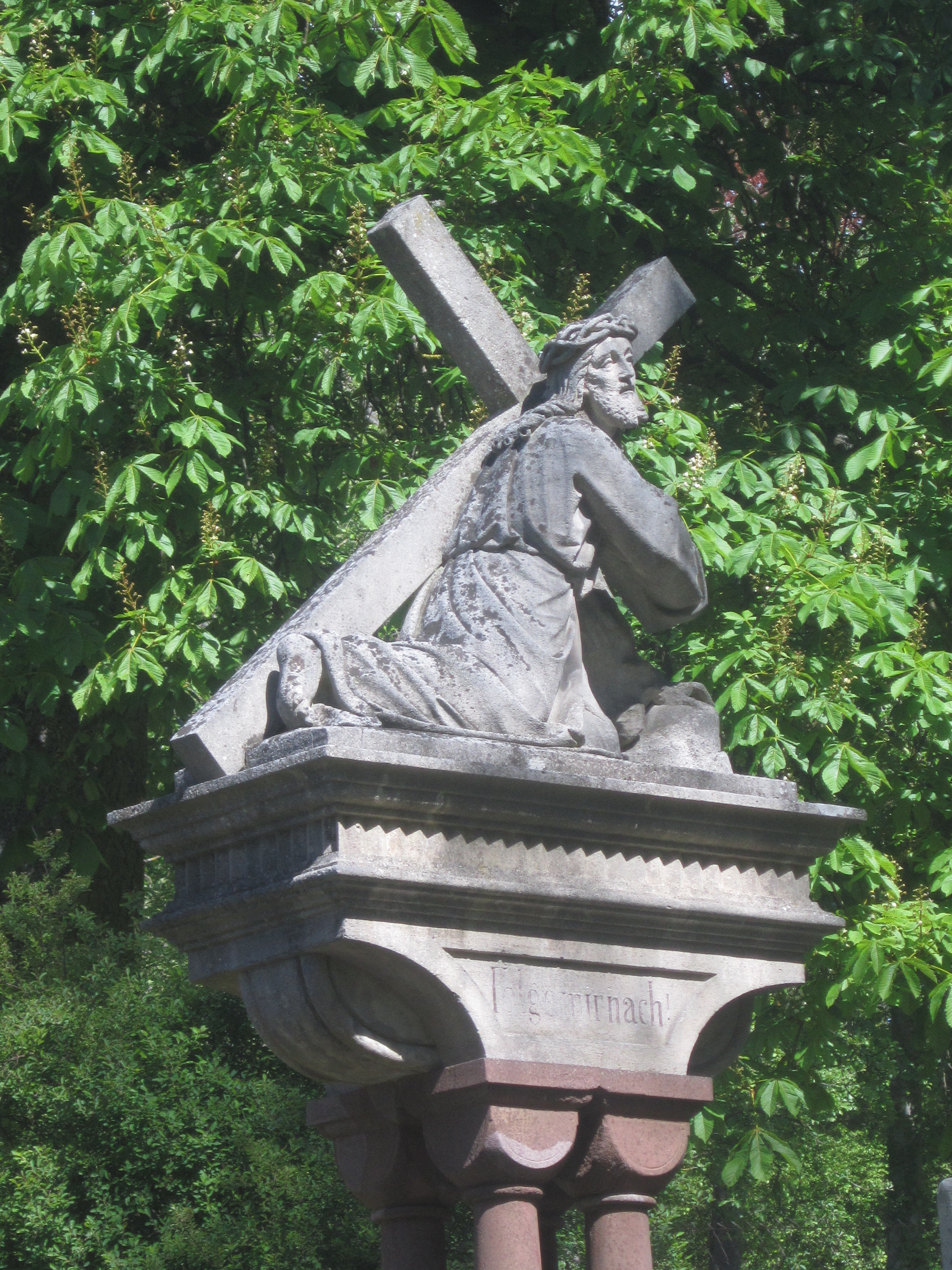 Way side shrine in Reiterswiesen, a quarter of the German spa town of Bad Kissingen in Lower Franconia (Bavaria).